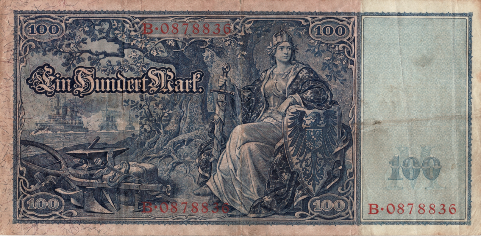 German Goldmark (Banknote)